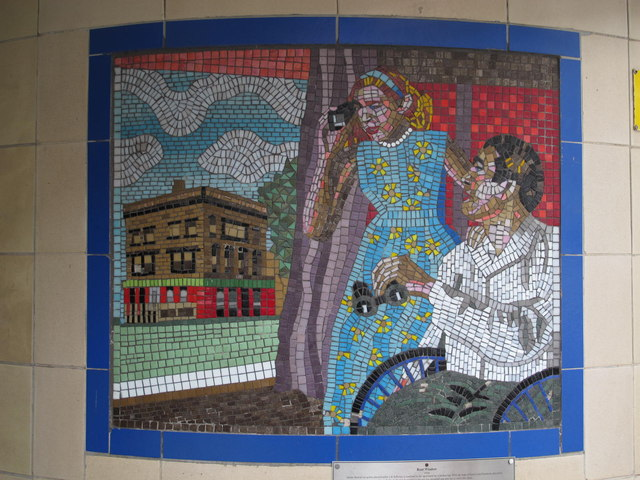 Leytonstone tube station - Hitchcock Gallery: Rear Window (1954)